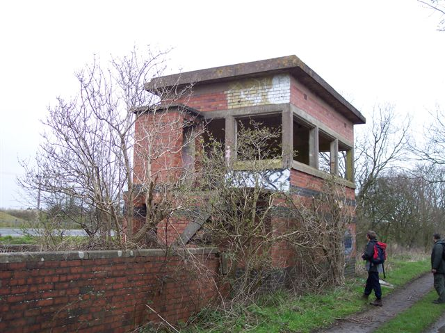 Remains of Broom West Junction Signalbox, Warwickshire